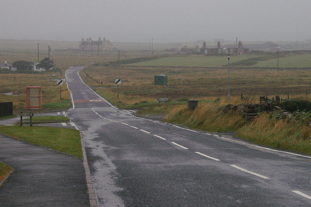 Dreich, Baltasound 'Dreich' may be a Scots dialect word and not strictly a Shetland one, but it accurately describes the weather. View west from Daisy Park with the shop at Nord in the mist in the distance.